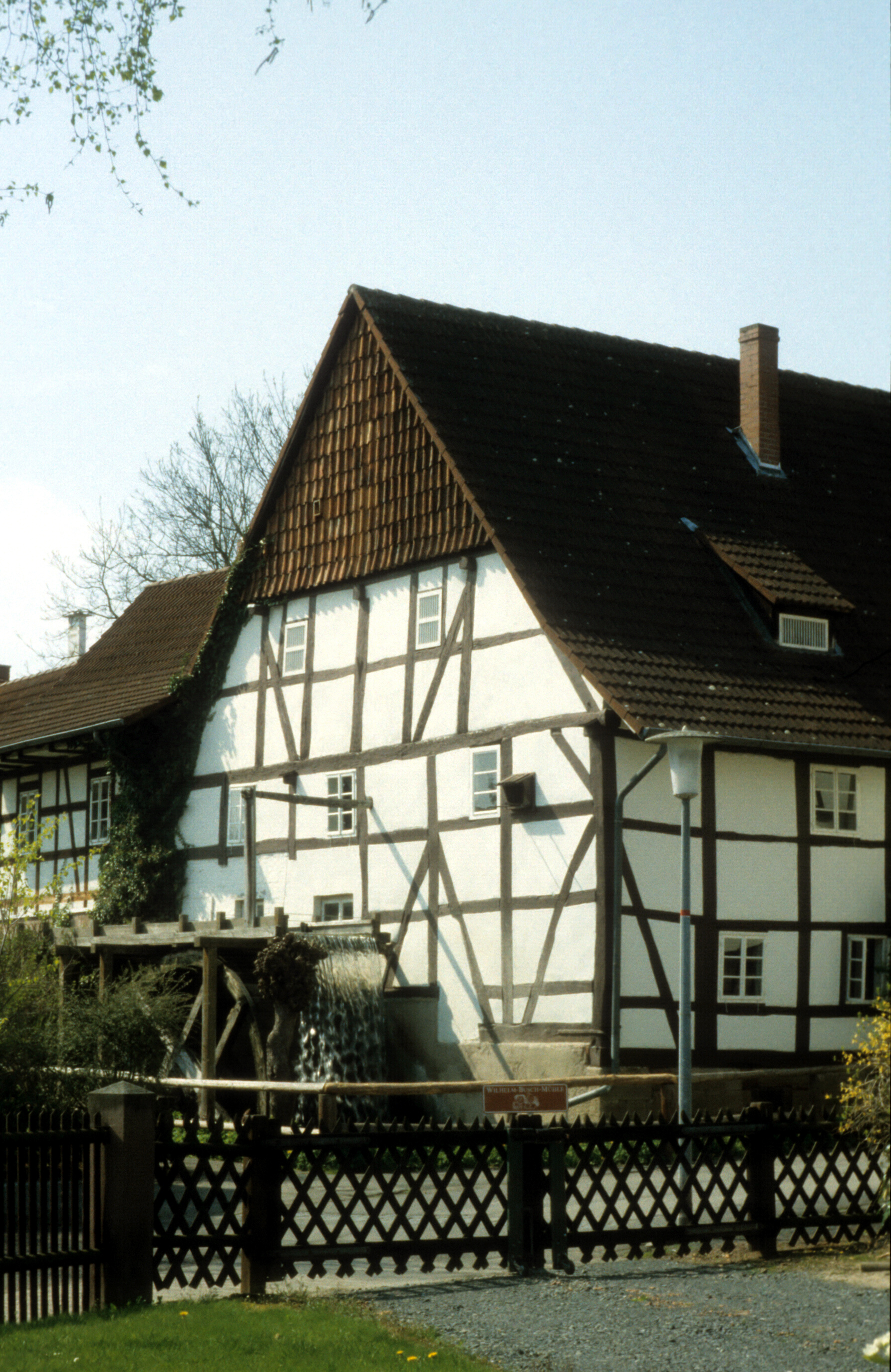 Watermill with Wilhelm-Busch museum in Ebergötzen, Lower Saxony, Germany. 18th century